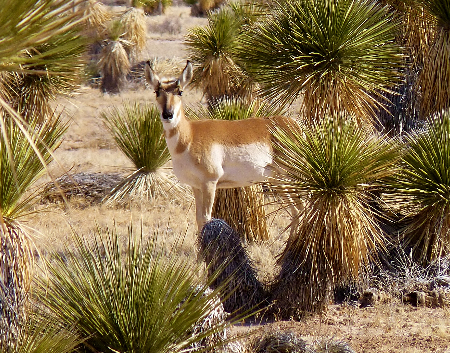 Antelope in a tree-yucca "forest", Otero Mesa west of Carlsbad, NM